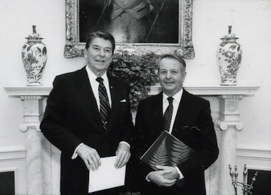 United States President Ronald Reagan receives diplomatic credentials from Ambassador Wallace (Bill) Rowling of New Zealand